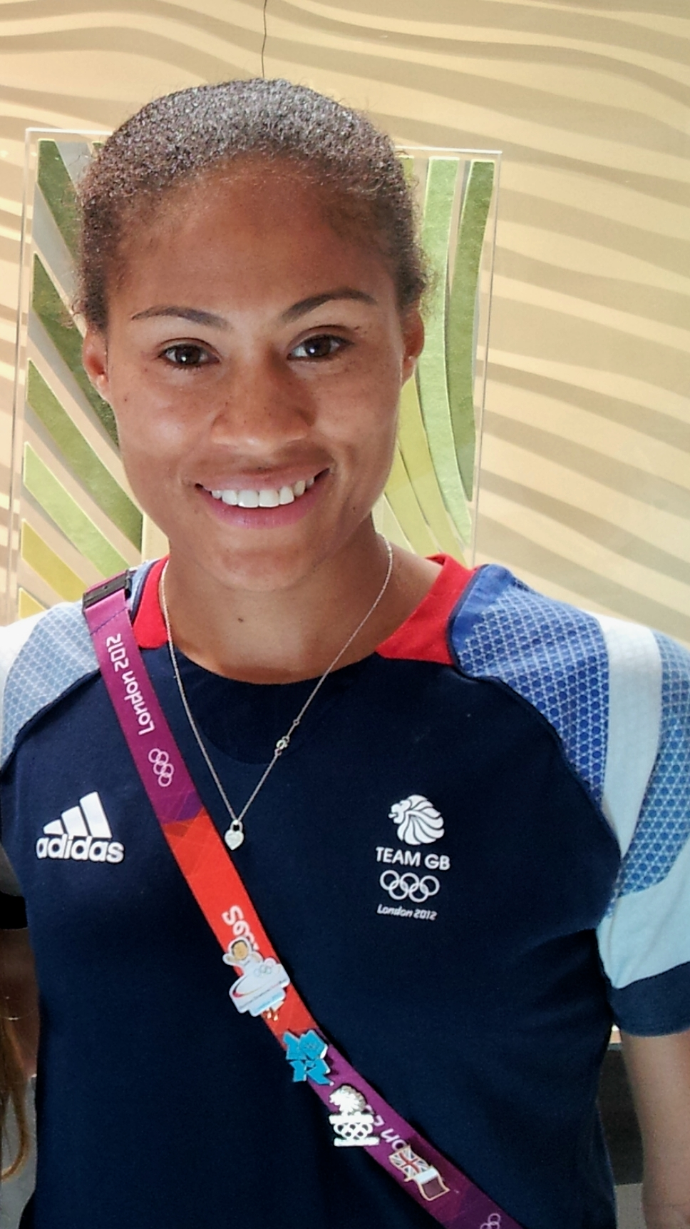 English International footballer Rachel Yankey at The London 2012 Summer Olympic Games